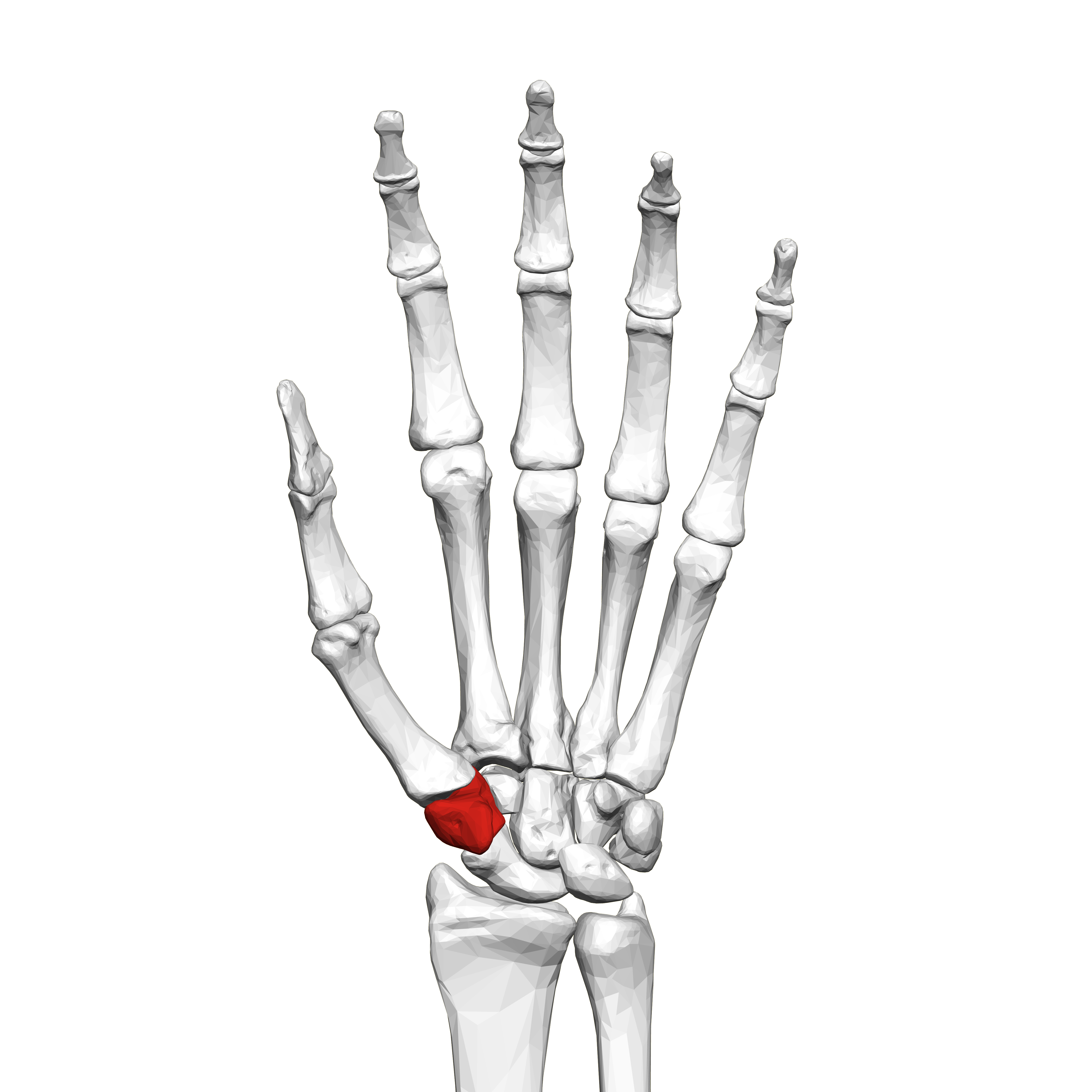 Trapezium (shown in red).